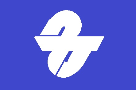 Flag of Taketoyo Aichi